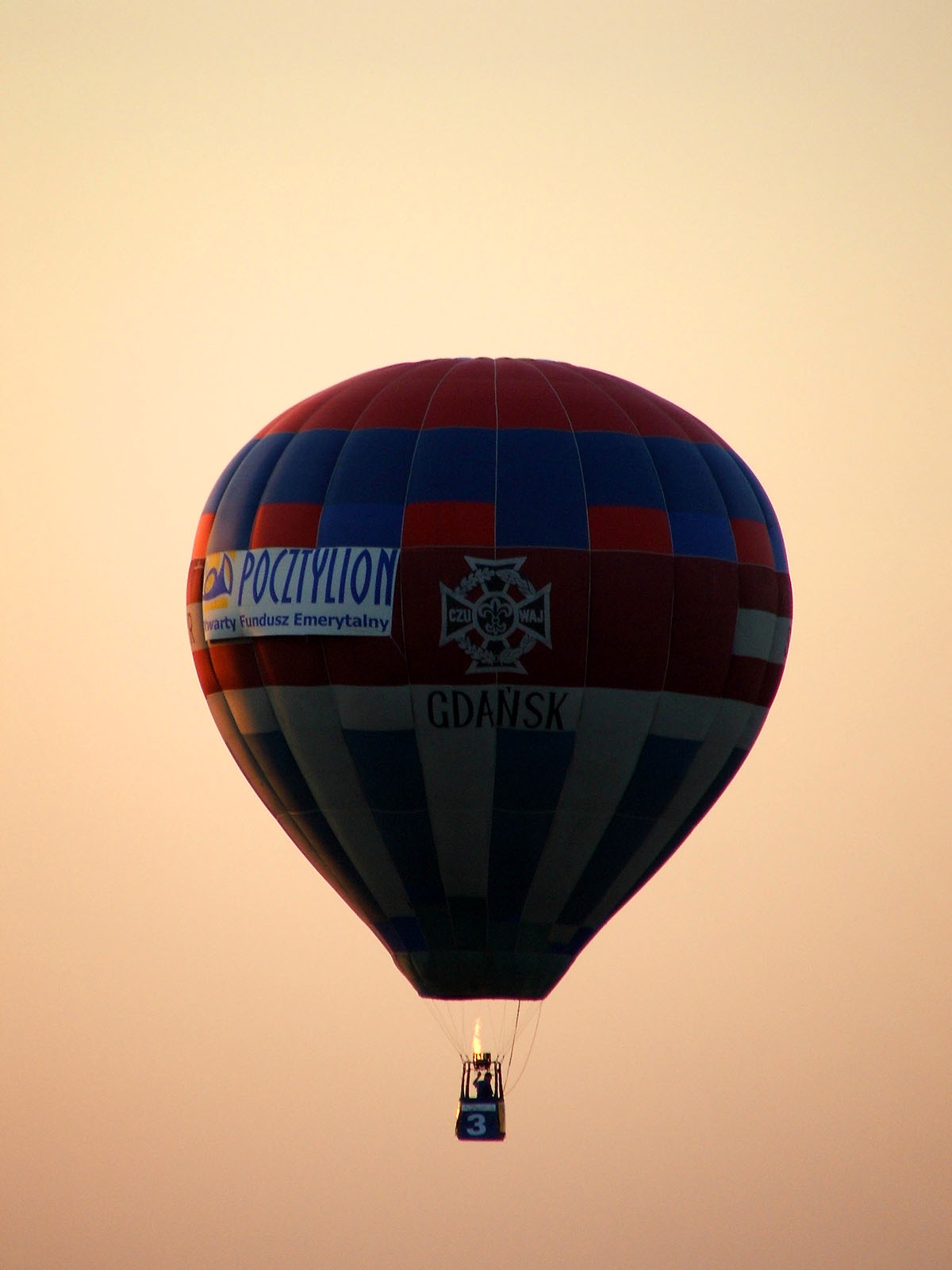 Balloon in Toruń, Poland.